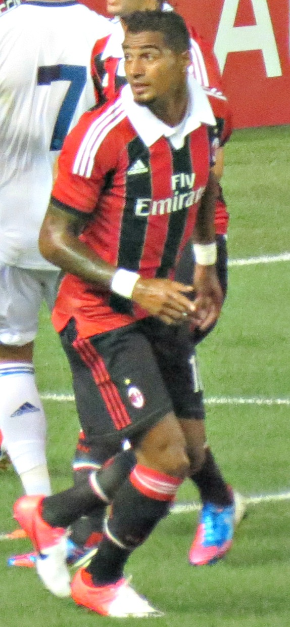 Taken by goatling with a Canon PowerShot SX40 HS camera. Kevin-Prince Boateng of A.C. Milan in action for A.C. Milan against Real Madrid in the 2012 World Football Challenge.